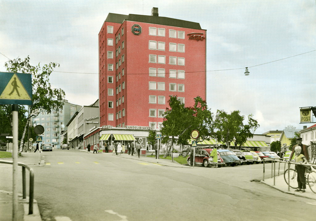 Geologgatan (Geologist street) in Kiruna, Lapland. Geologgatan i Kiruna. Parish (socken): Kiruna Province (landskap): Lappland Municipality (kommun): Kiruna County (län): Norrbotten Photograph by: Unknown. Almquist & Cöster Date: 1959-1965 Format: Original postcard, tinted Persistent URL: Read more about the photo database (in english)